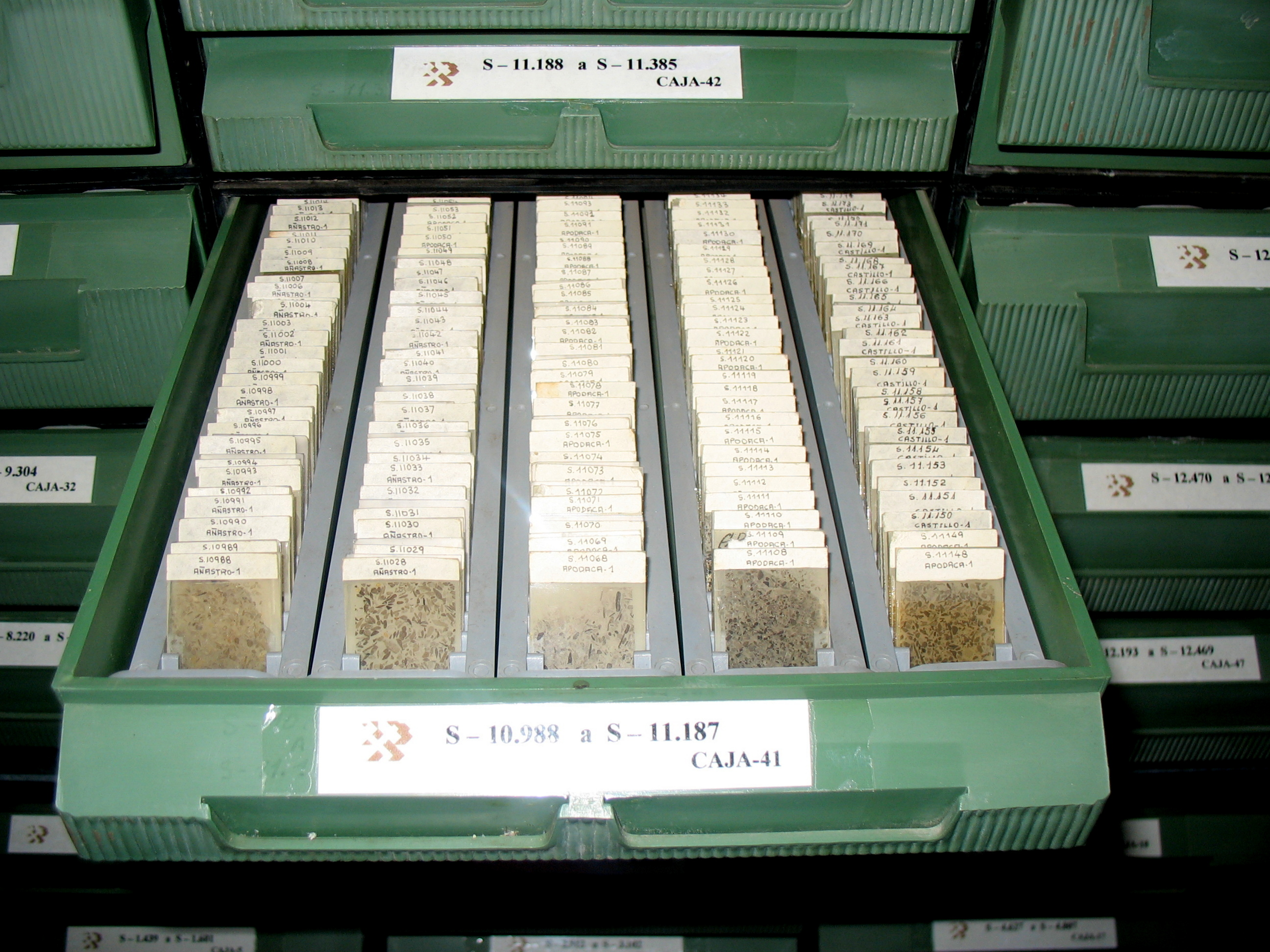 "C. G. S." (José Ramírez del Pozo y M. Aguilar) thin sections collection. Geological and Mining Institute of Spain: Drill Core Repository. Peñarroya, Córdoba, Spain.